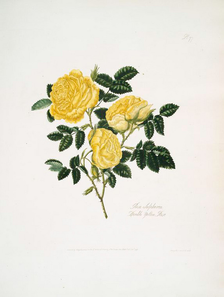 Mary Lawrance. A Collection of Roses from Nature. London: Miss Lawrance, 1799. The New York Public Library, Rare Book Division